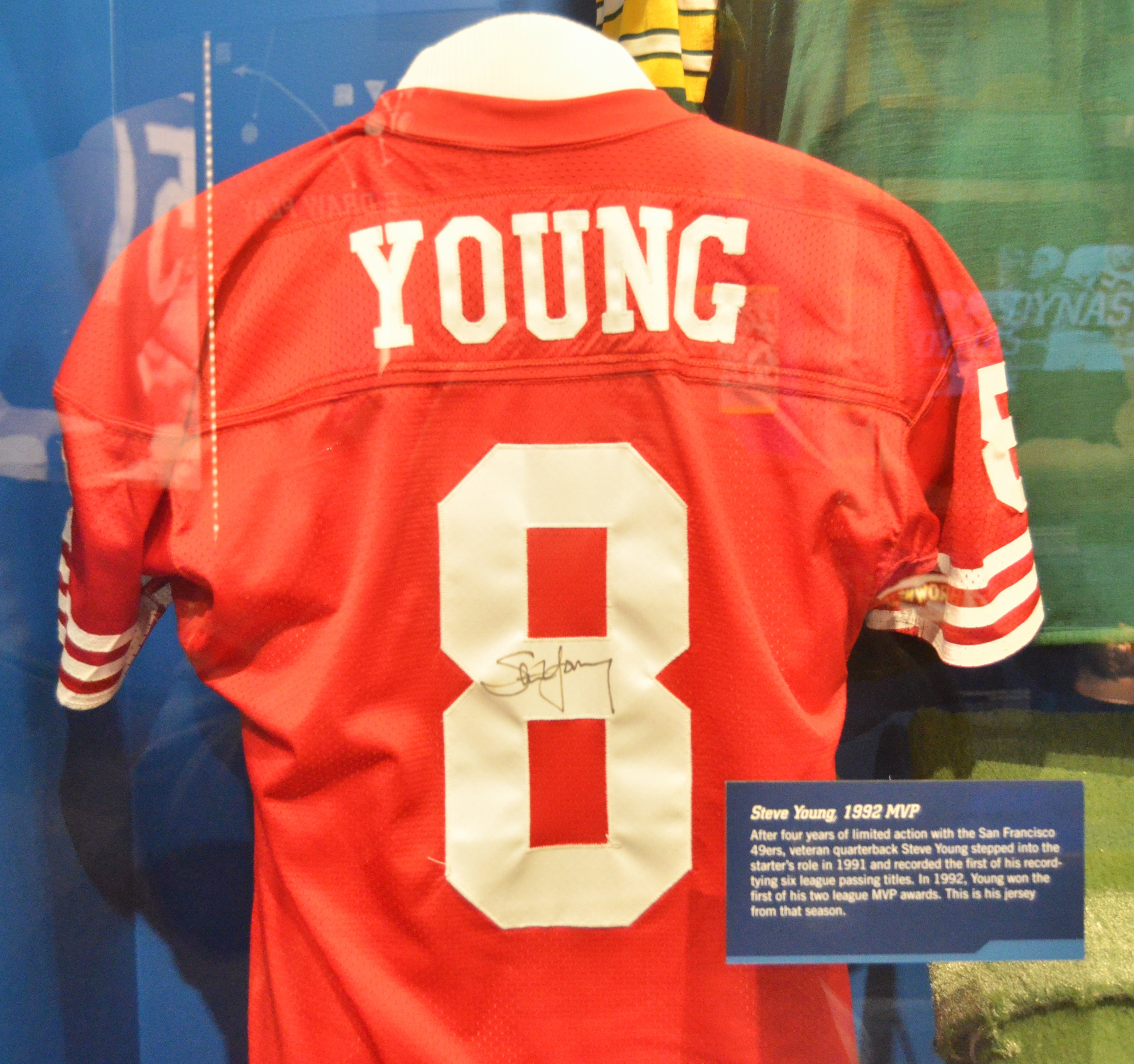 Steve Young jersey shown at Pro Football Hall of Fame in Canton, OH